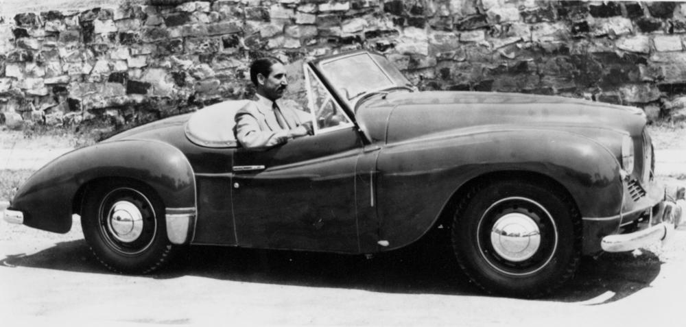 Jowett Jupiter SA Model sports roadster, 1952 Sleek sports model Jowett Jupiter with a 1486cc, 4 cylinder, horizontally opposed engine, produced from 1950 to 1954. This was the two seater sports model of the Jowett Javelin family car. The Jupiter was technically very advanced, with cast alloy extensively used in the engine, torsion bar suspension front and rear, and a light space frame body with aluminium panels. Jupiters were class winners in the Le Mans 24 hour race in 1950, 1951 and 1952. Jowett produced its last car in 1954.